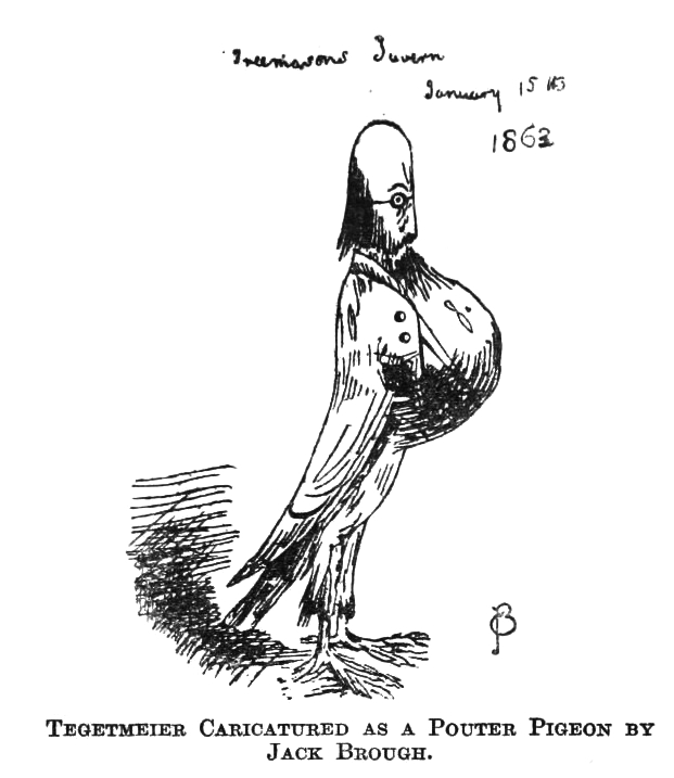 Caricature of W. B. Tegetmeier as a pouter pigeon